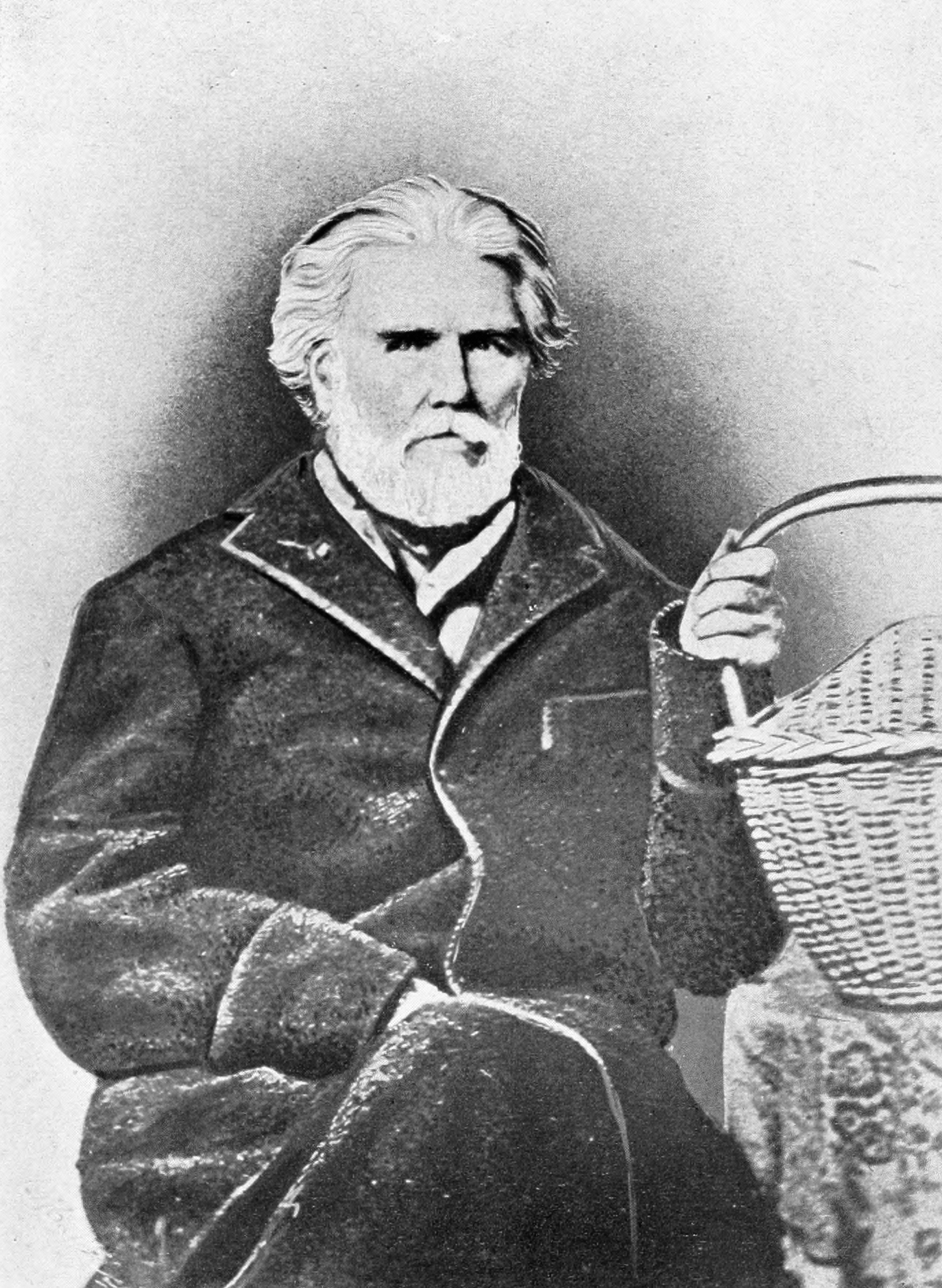 Angus William McDonald (February 14, 1799 – December 1, 1864) was a 19th century American military officer and lawyer in the U.S. state of Virginia. He also served as a colonel in command of the Confederate States Army's 7th Virginia Cavalry during the American Civil War. McDonald was appointed to serve in a number of prominent political positions including a superintendent overseeing the construction of the Northwestern Turnpike and a commissioner representing Virginia in its boundary dispute with Maryland. McDonald was the grandson of Virginia military officer and frontiersman, Angus McDonald (1727–1778) and the father of United States Fish Commissioner Marshall McDonald (1835–1895).